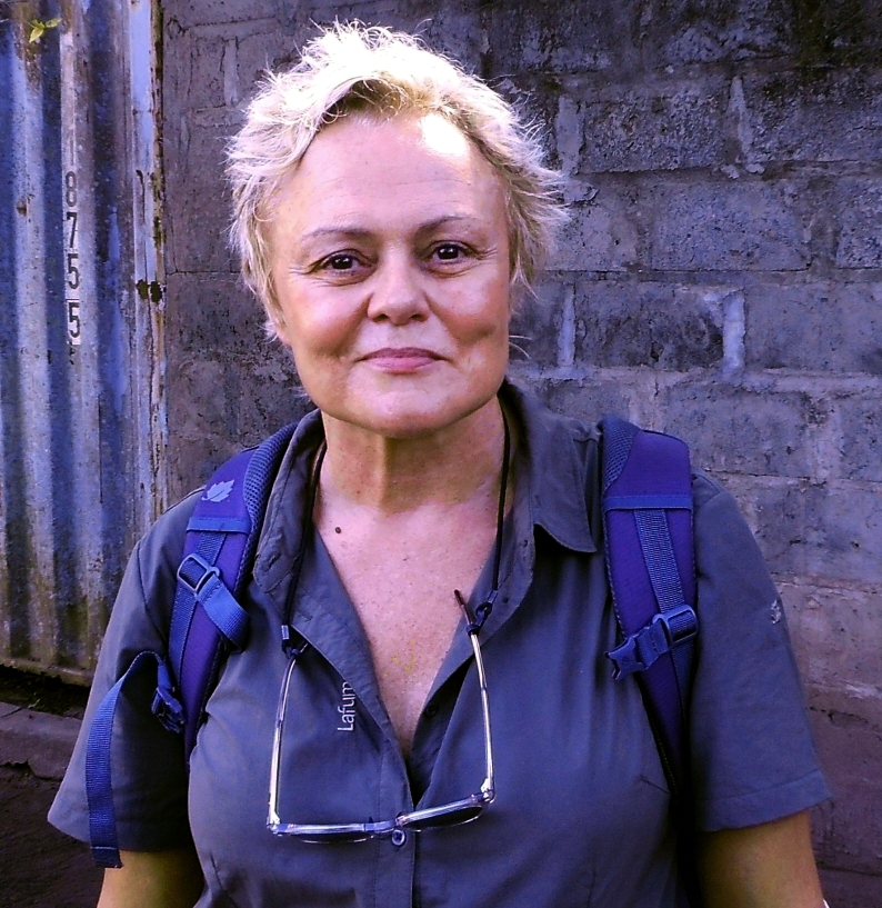 Muriel Robin in Basankusu, Democratic Republic of Congo (2016) for a TV shoot - by Francis Hannaway.